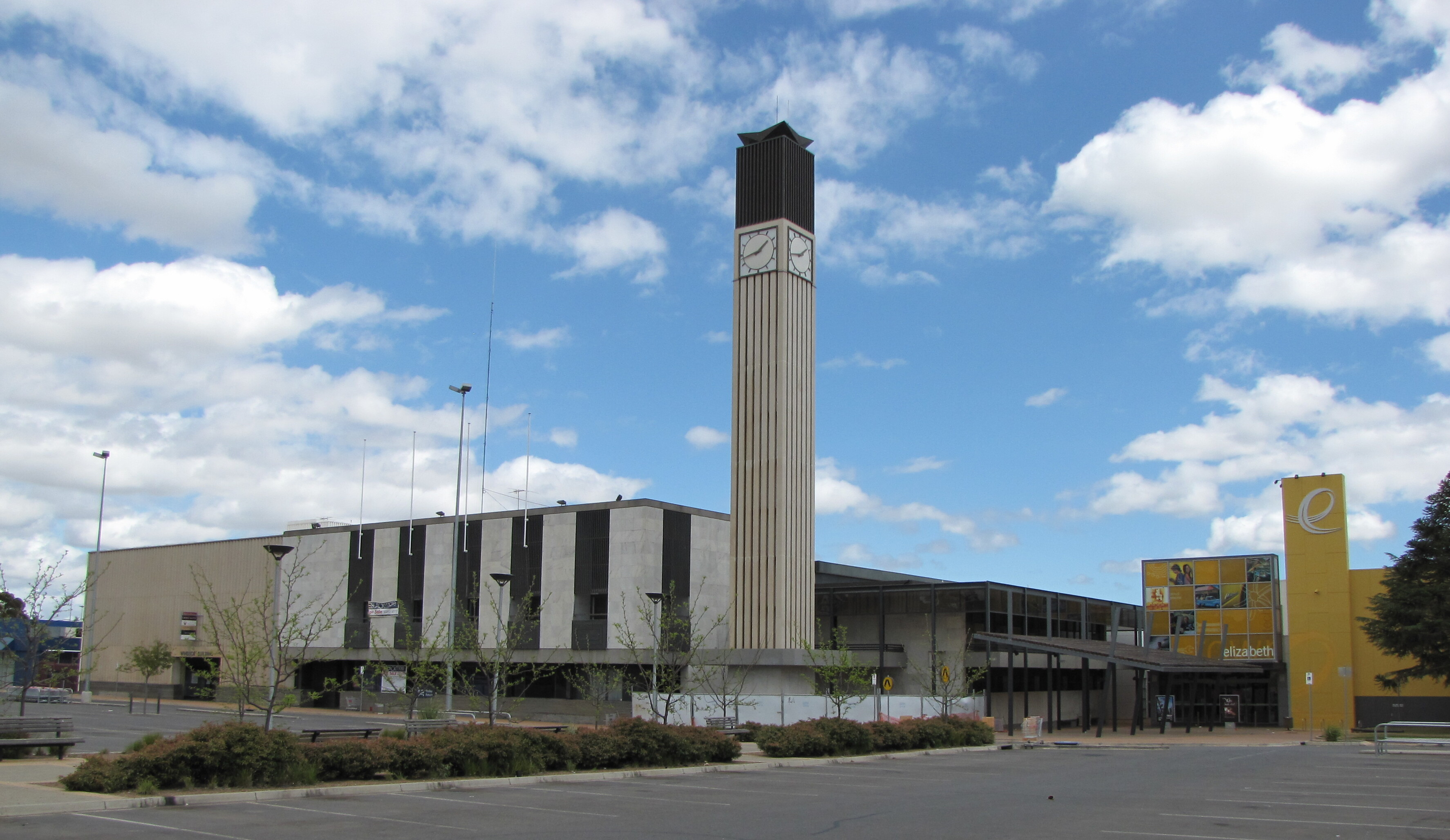 Clock tower at Elizabeth City Shopping Centre with the Windsor building to the left of the picture.